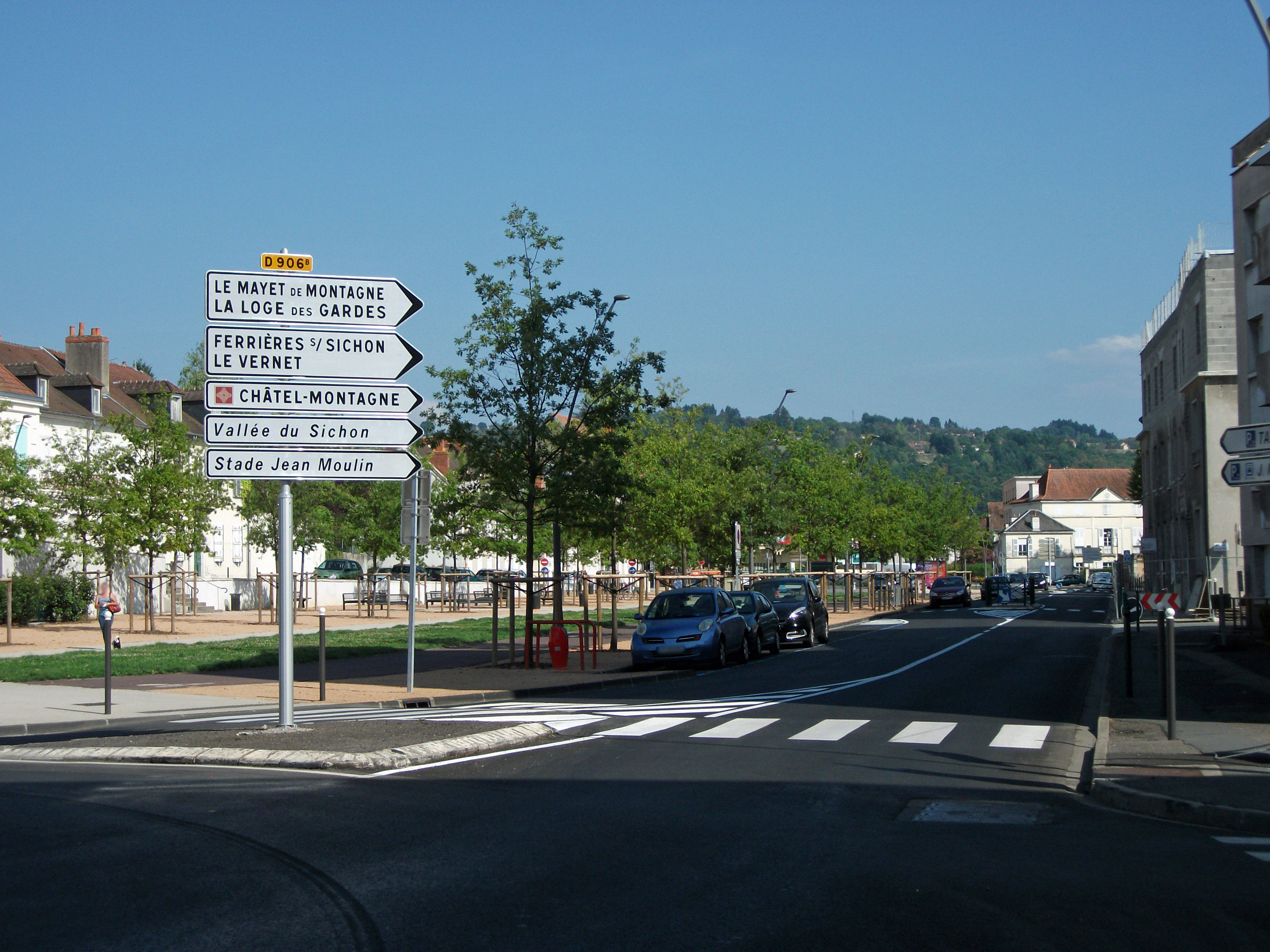 Departmental road 906B towards: Le Mayet-de-Montagne, La Loge des Gardes; Ferrières-sur-Sichon, Le Vernet; Châtel-Montagne; Sichon Valley; Jean Moulin Stadium. Directional road signs (manufacturer: Nadia signalisation, year: 2015, CE&NF SD 904) put 6 months ago in this road (replaces 12 to 27-year-old signs), and road renovated a few weeks ago by Allier department. Cours Arloing, Cusset, Allier, France. [8535]